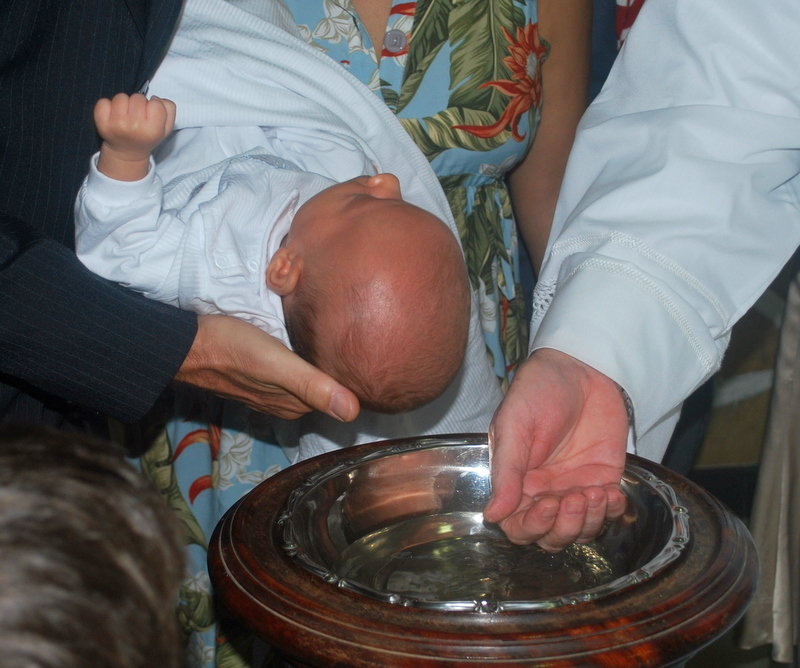 A child is baptized in a lutheran church of Brazil.